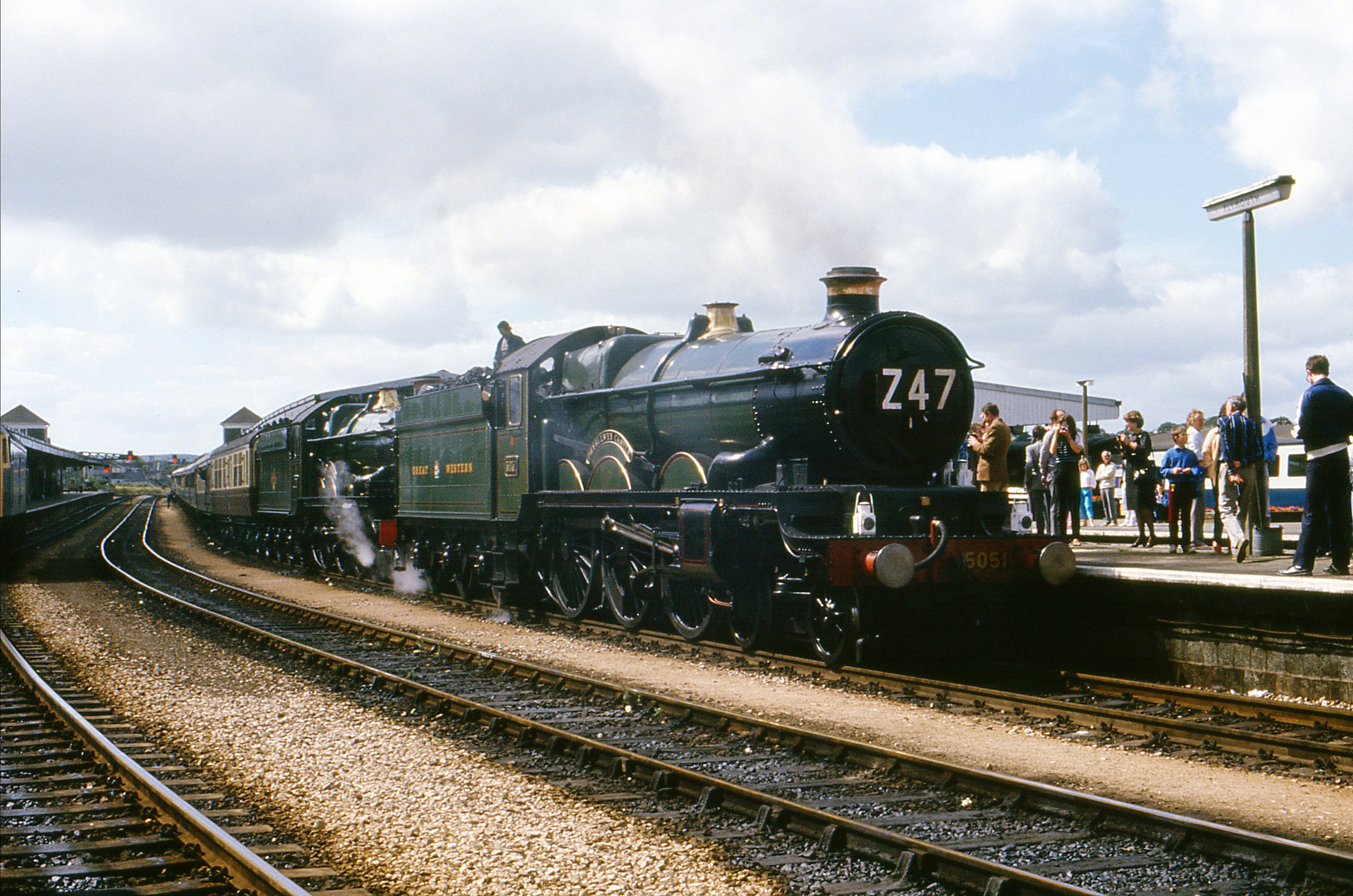 The Great Western Limited 150 Railtour of 1985 captured at Plymouth and Exeter St. Davids stations. Camera: Olympus OM1 35mm SLR. Film: Fuji.